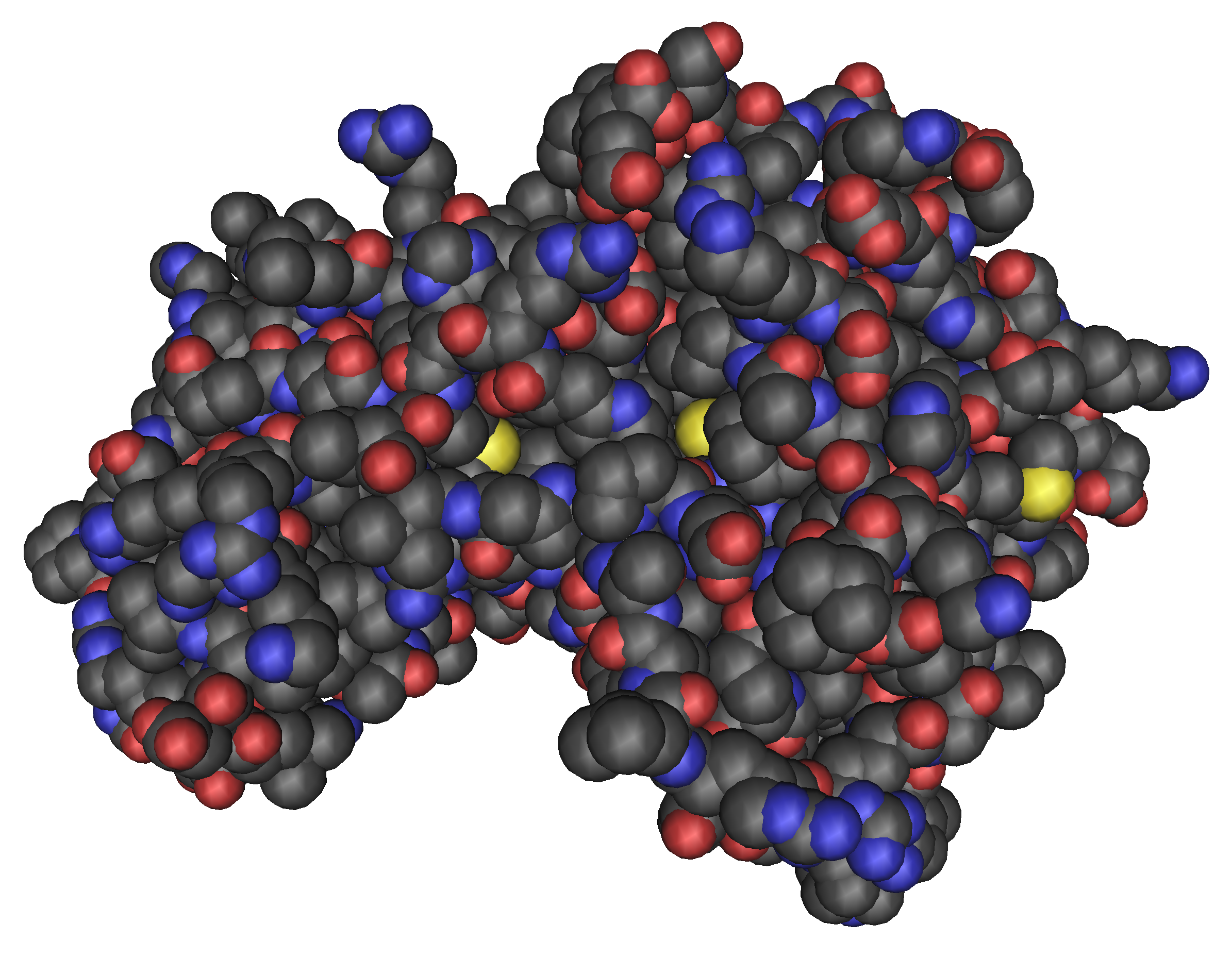 MMDB ID 90115_PDB ID 3AQV_amp-activated protein kinase (Not the whole protein but a fragment, see PDB)